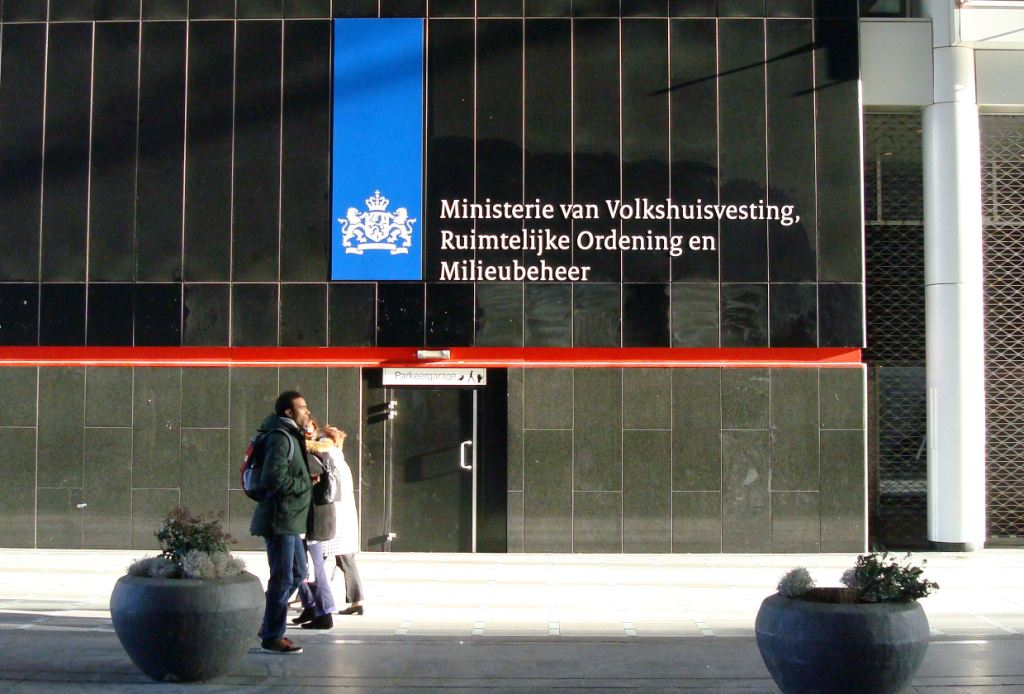 Typeface Rijksoverheid Serif by Peter Verheul in use